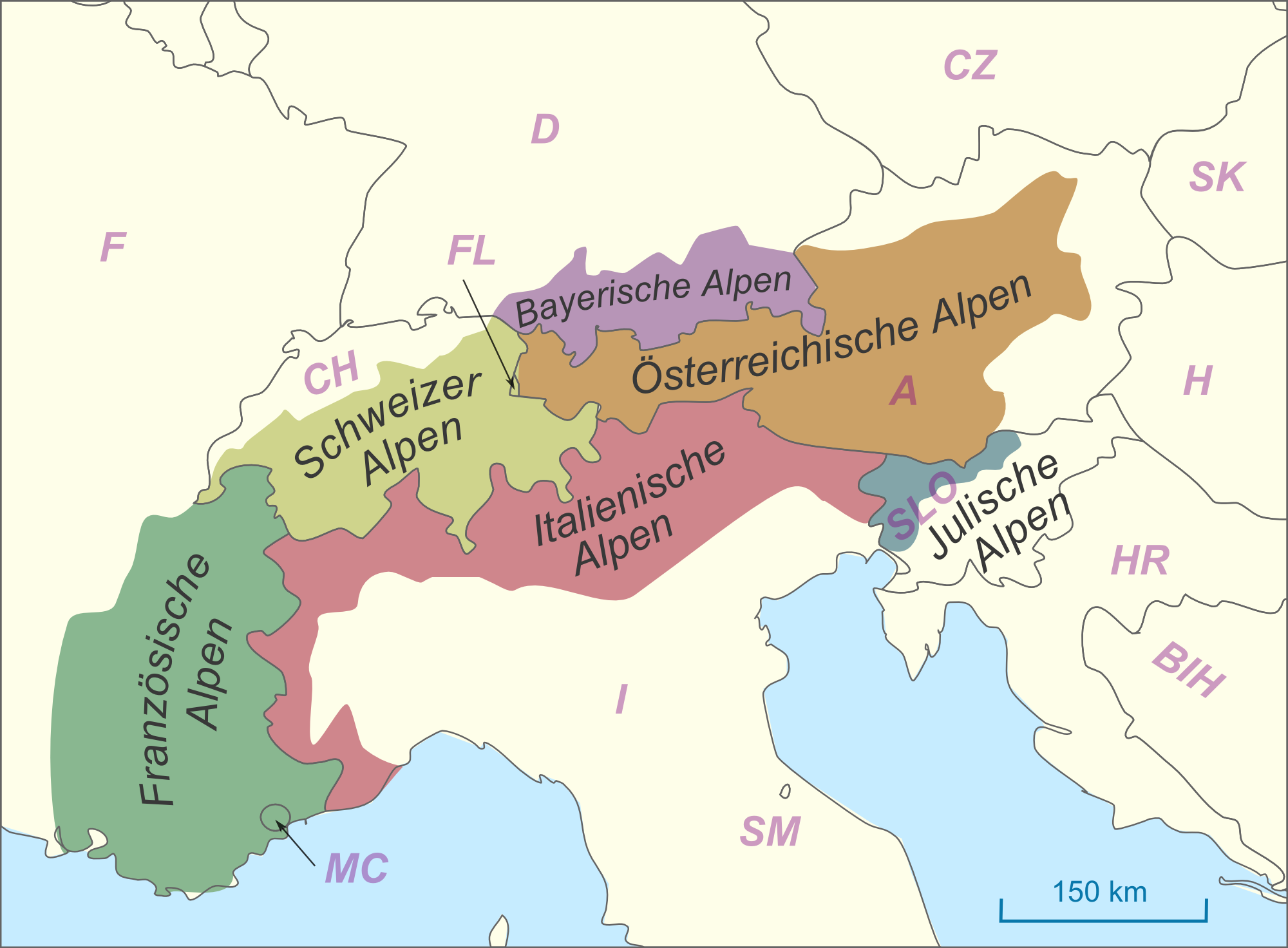 Own work based on Alps regions.svg using German text and standard location map colors for the map background.